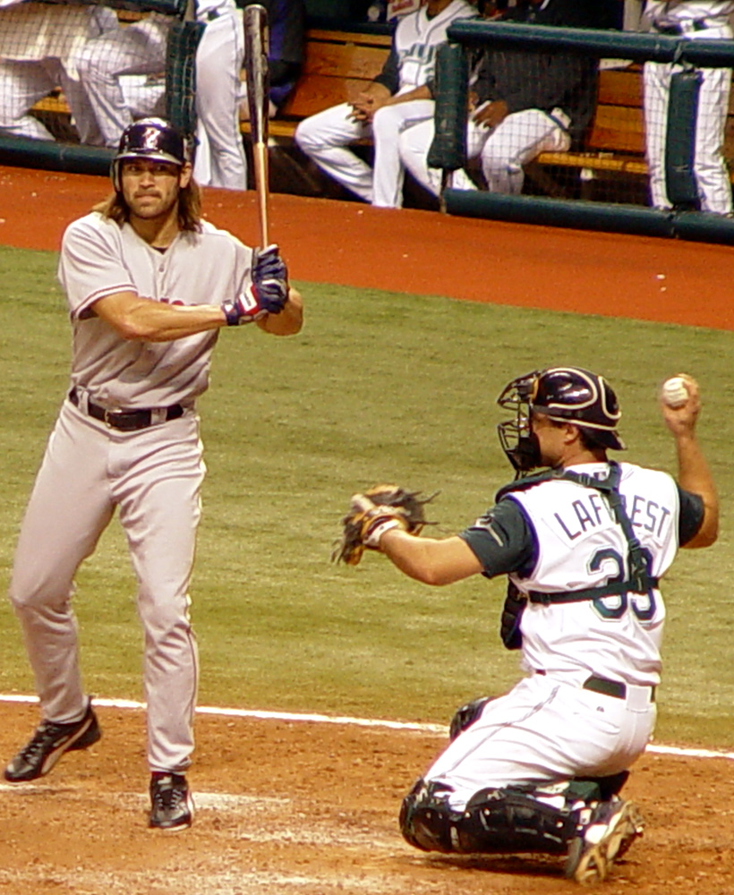 Johnny Damon at the plate. 04:10, 21 September 2005 . . Googie man . . 820×1000 (357 KB)